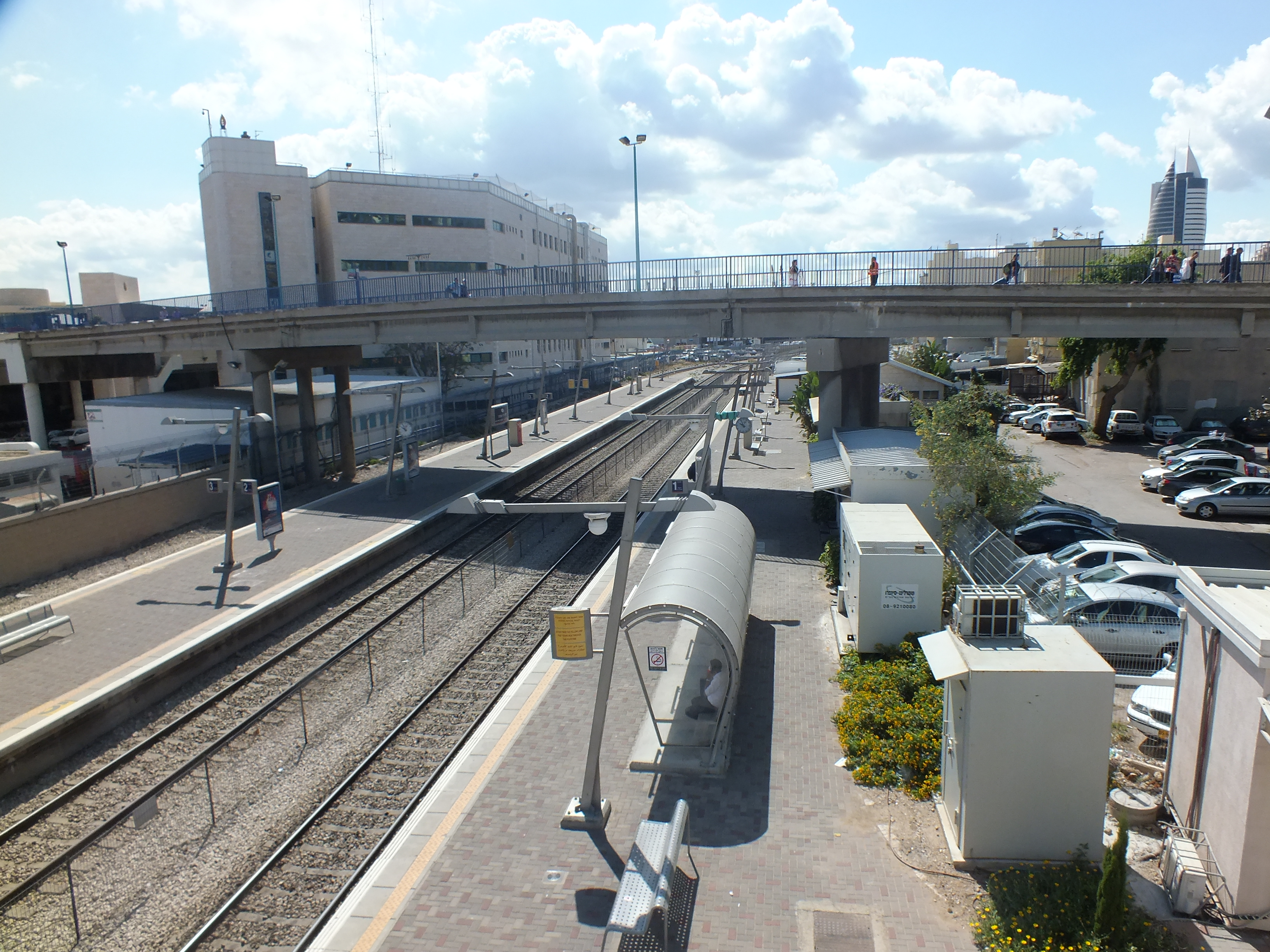 Pedestrians on the road and pedestrian bridge connecting the port of Haifa's passenger terminal with Ha'Atzma'ut Road and Haifa Center railway station, with the railway and Haifa Center's platforms situated below.